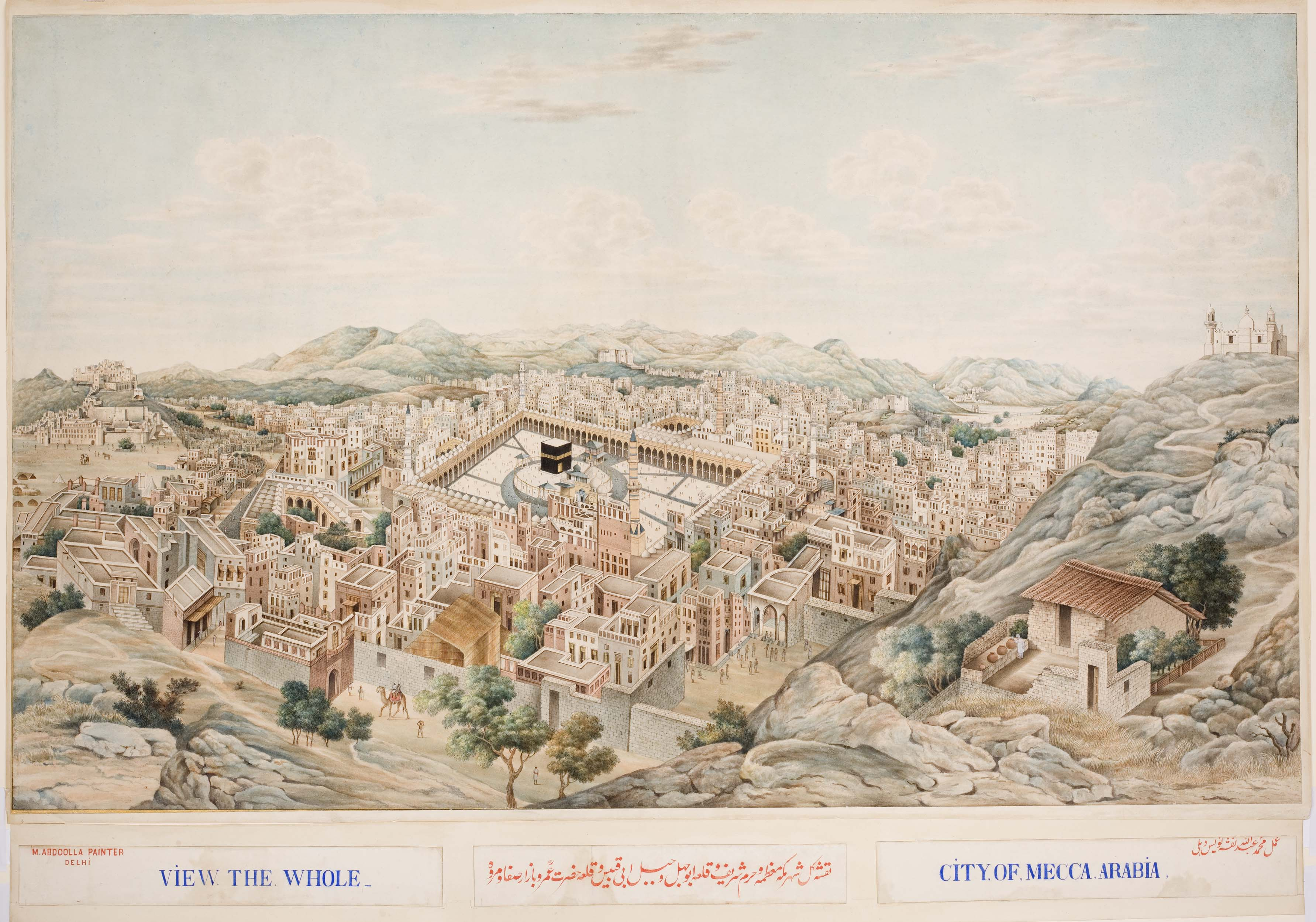 Panoramic View of Mecca, Mecca, Saudi Arabia, 1845. From the Nasser D. Khalili Collection of Hajj and the Arts of Pilgrimage.